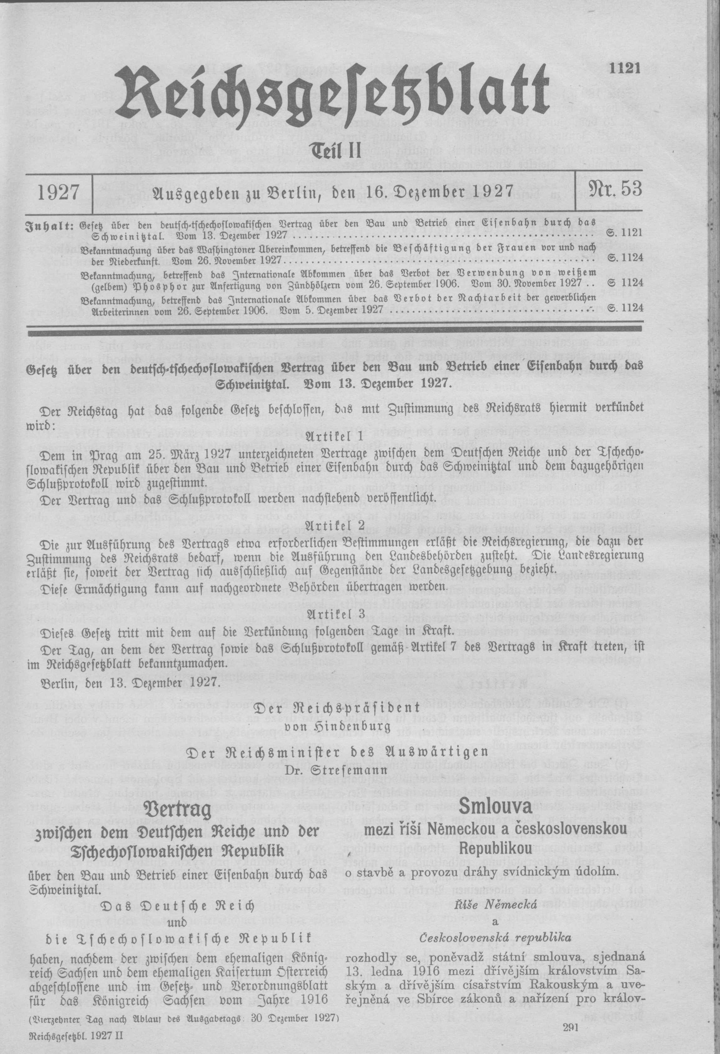 Scan from the Imperial Law Gazette of Germany, 1927, part 2